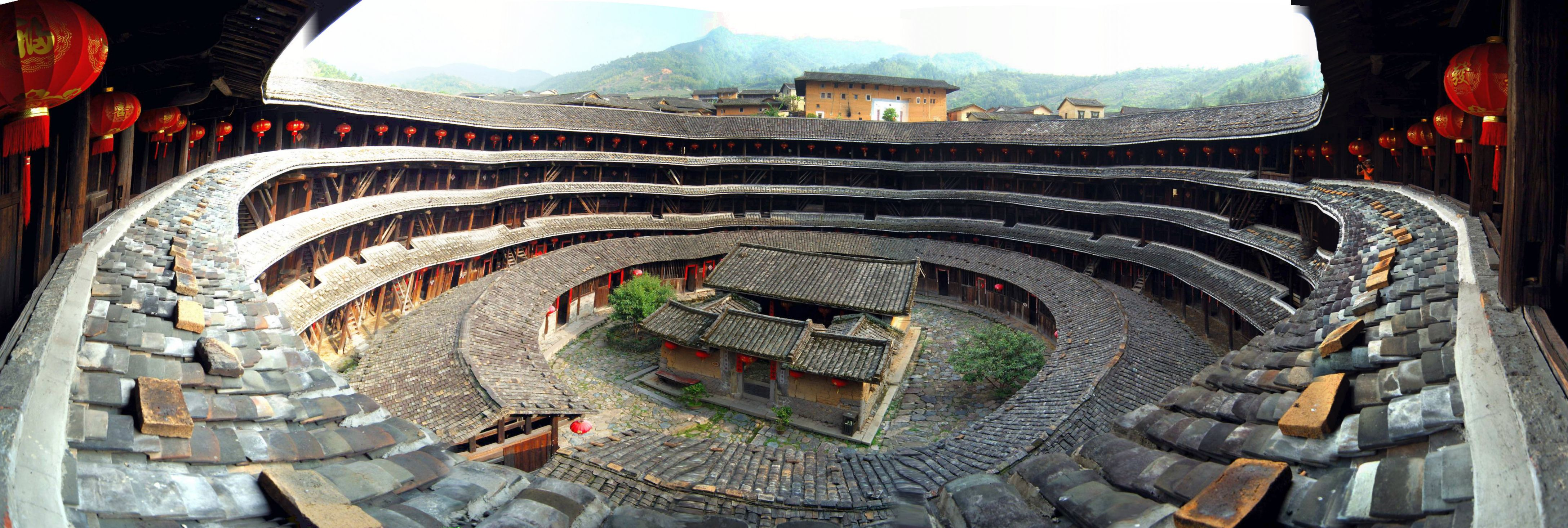 A panoramic photo of Jiqing Lou, one of the tulous in the Chuxi Tulou Cluster. Chuxi Village, Xiayang Town (下洋镇), Yongding County, Fujian